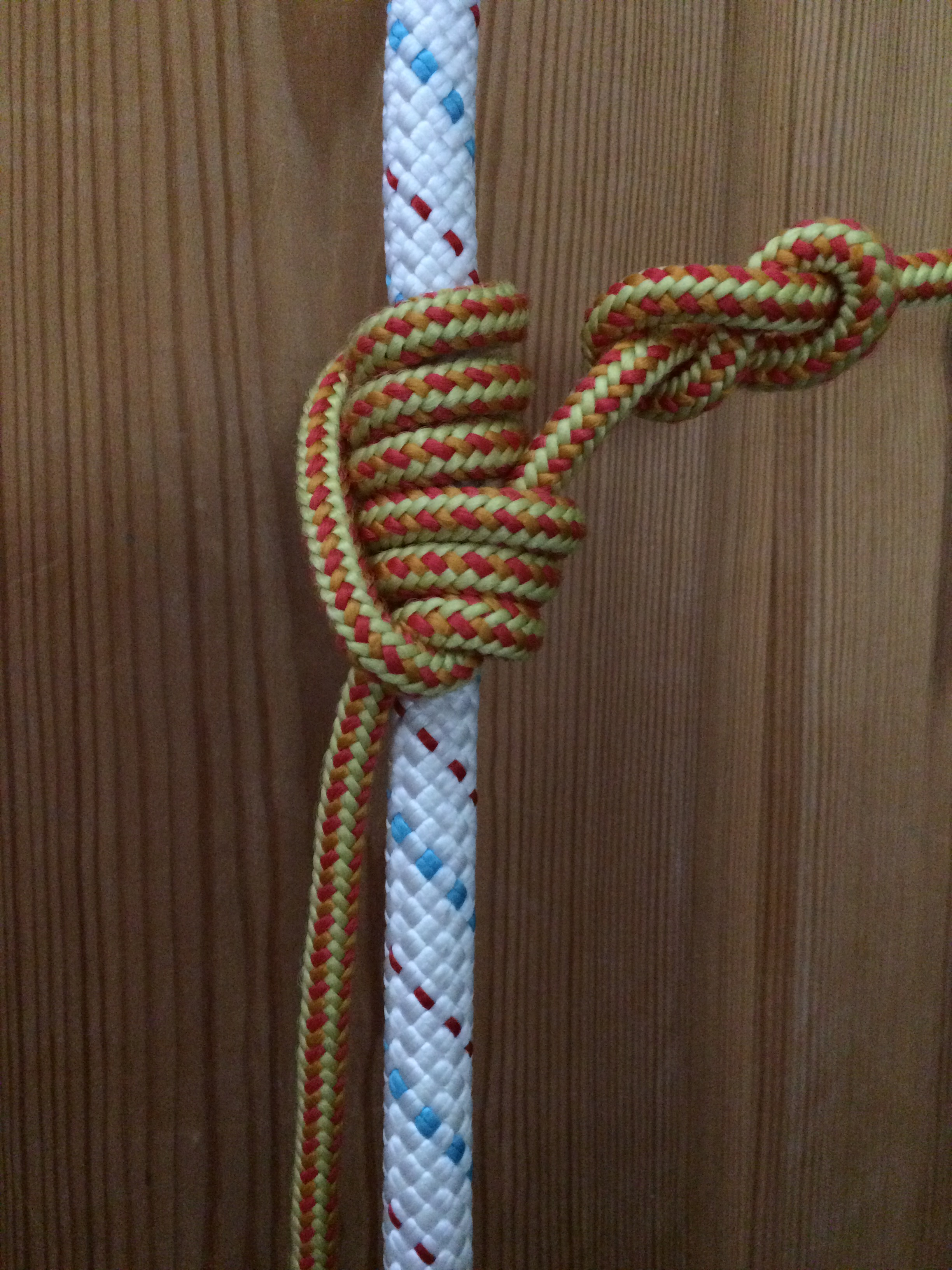 Variant of blakes with 6 turns, the tail still comes out in the middle